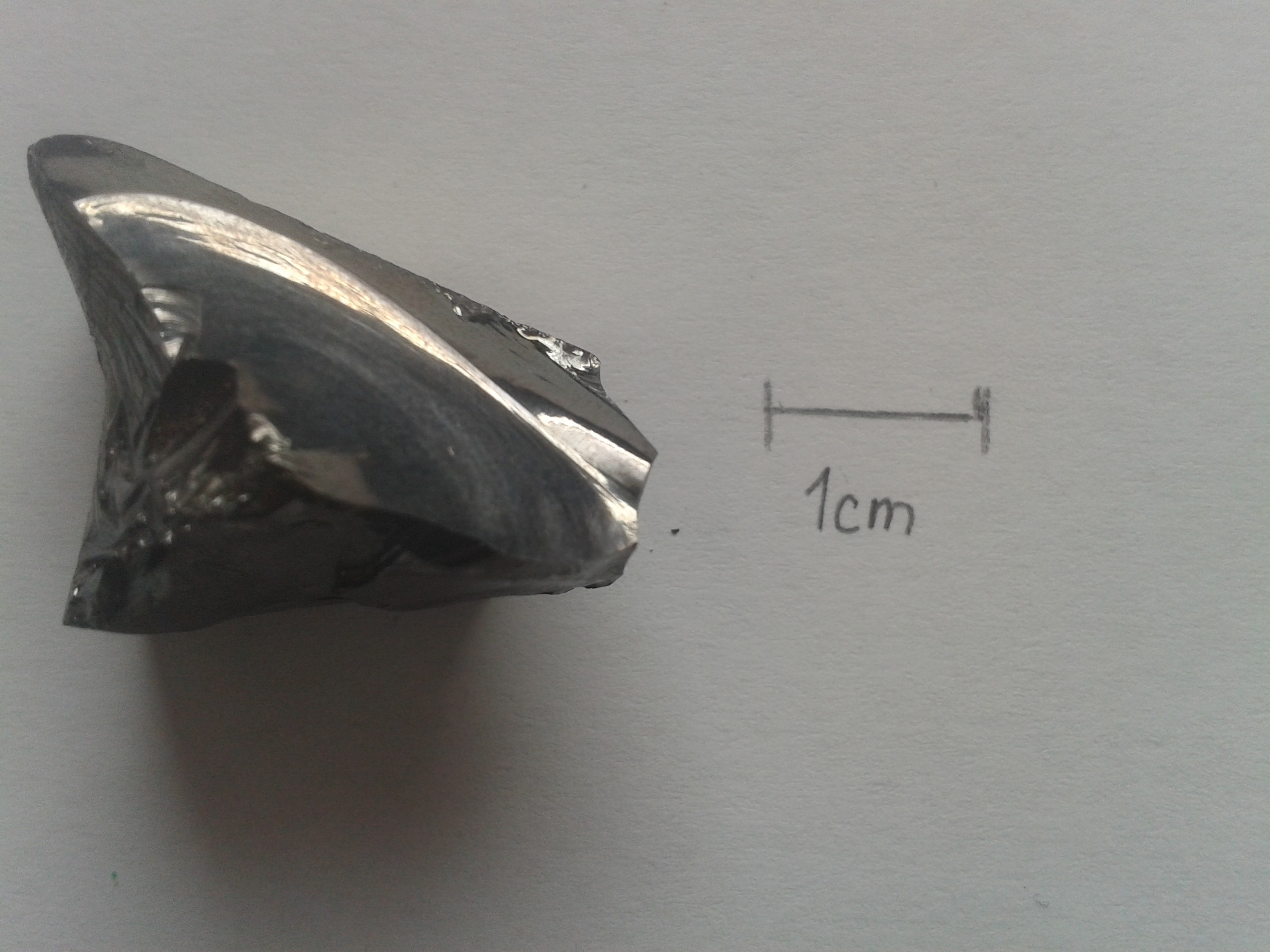 Selenium crystal